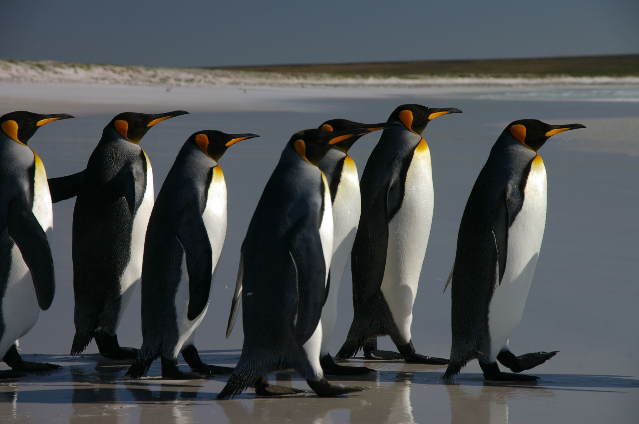 King Penguins (Aptenodytes patagonicus patagonicus), West Falkland